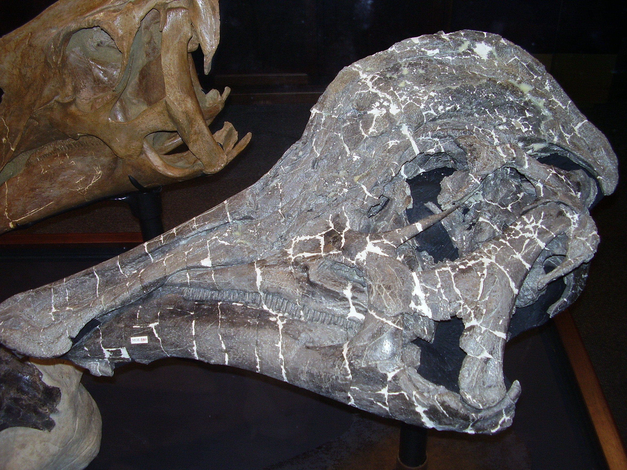 Skull of hadrosaurid Hypacrosaurus in the Museum of the Rockies.